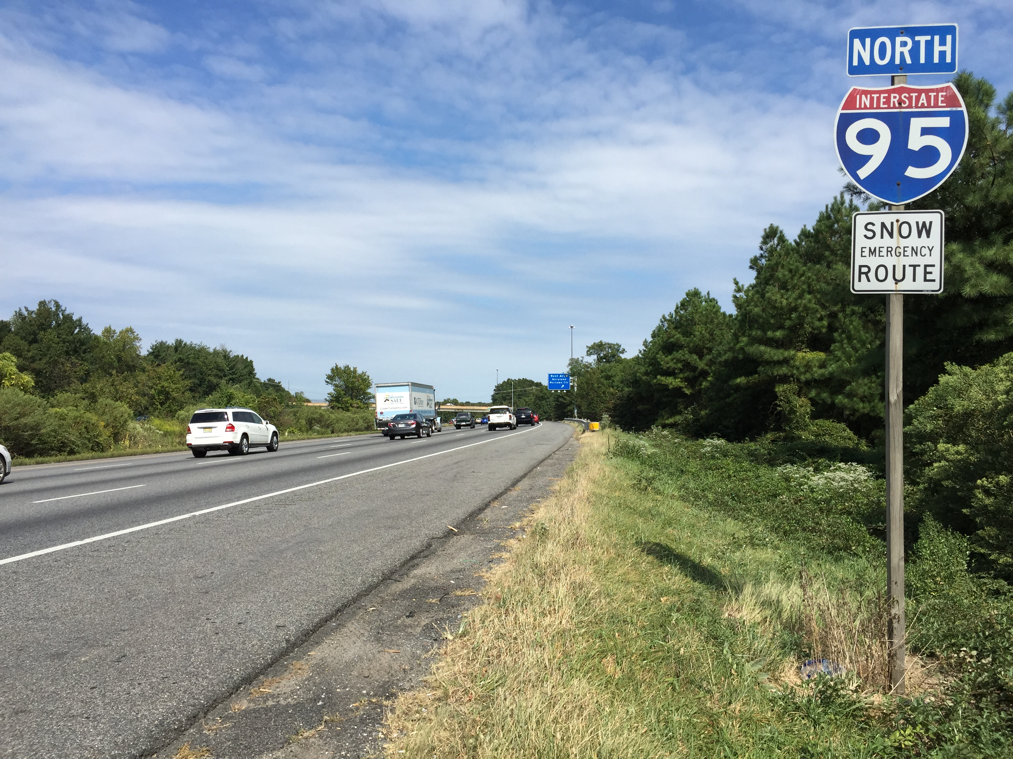 View north along Interstate 95 just north of Exit 35 (Maryland State Route 216, Laurel, Scaggsville) in North Laurel, Howard County, Maryland